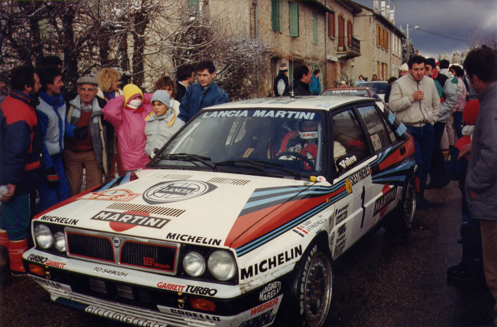 Bruno Saby and Jean-François Fauchille's #1 Lancia Delta HF Integrale "8v" of Martini Racing at 1989 Monte Carlo Rally, SS2 Lalouvesc.